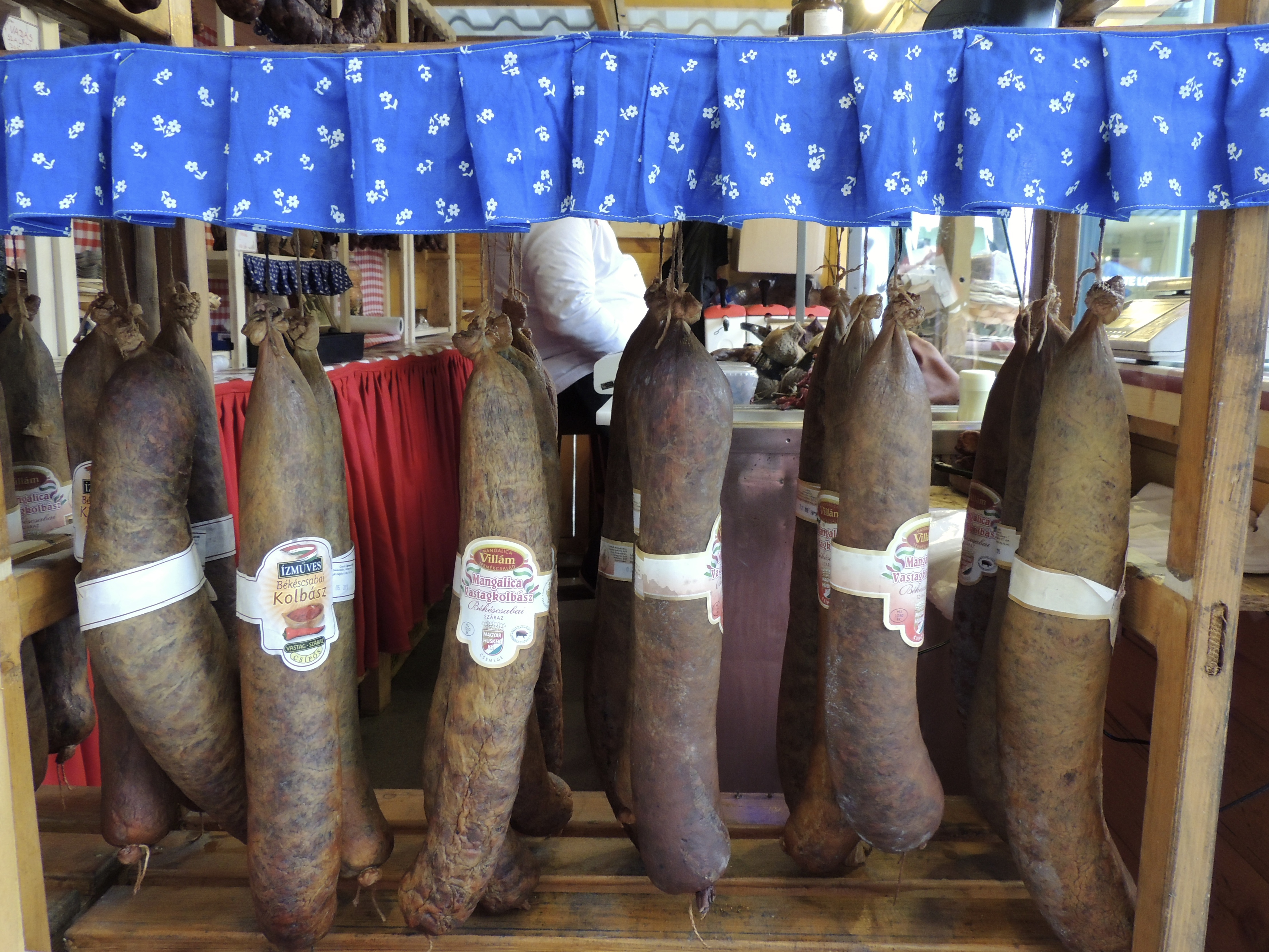 Hungarian Mangalica pork salamis and sausages at the Budapest Easter market